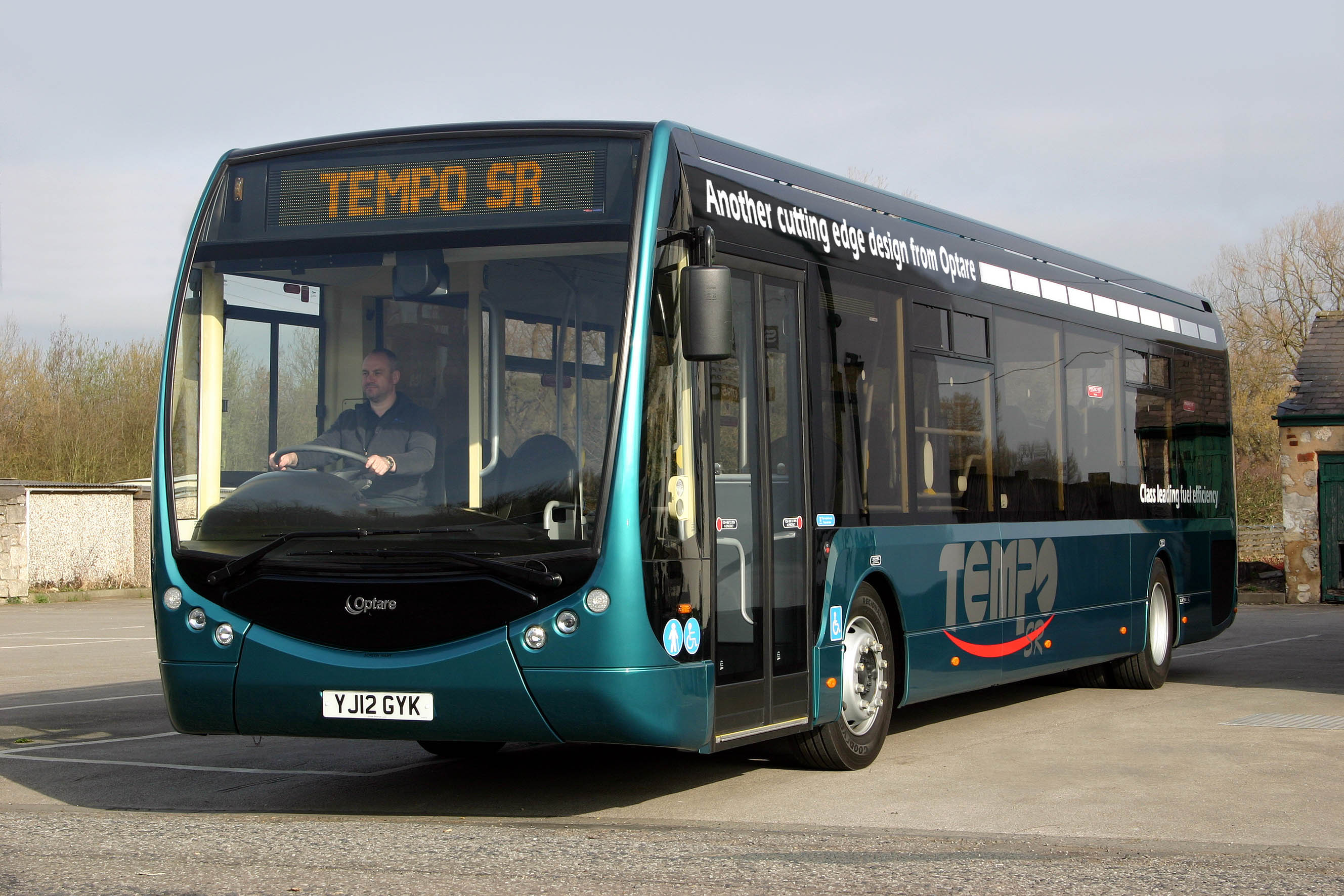 The new Tempo SR